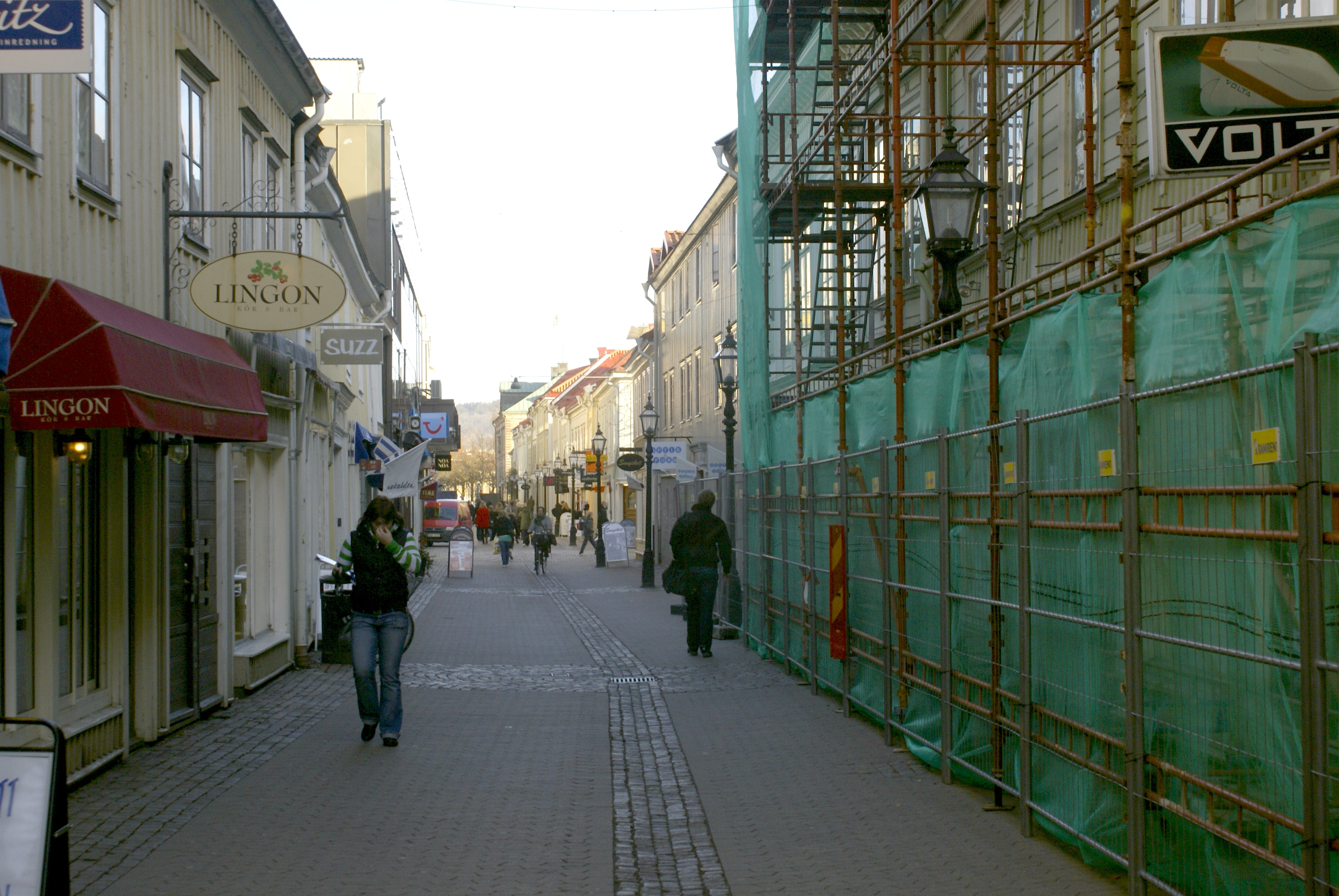 Smedjegatan (street) in Jönköping